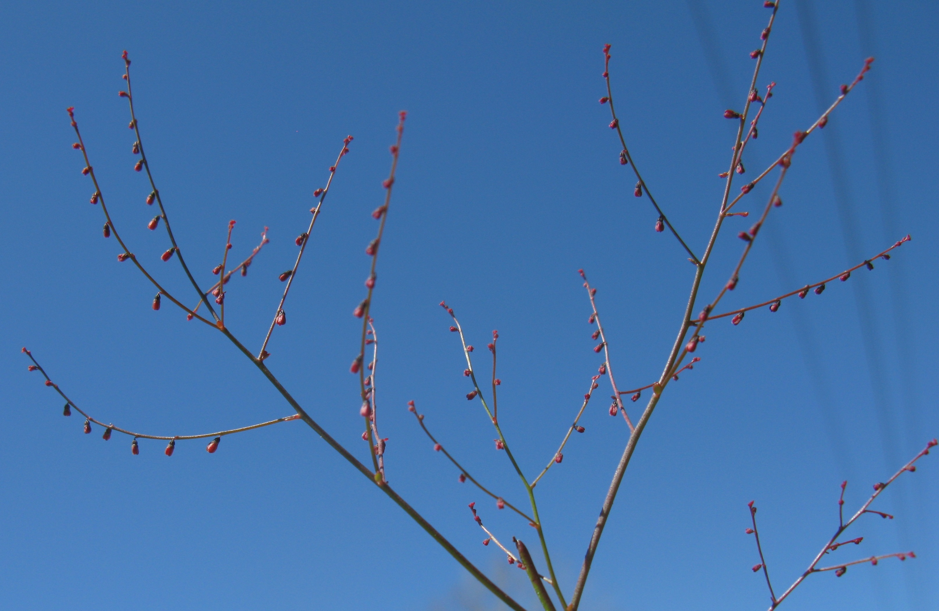 Gonocarpus micranthus